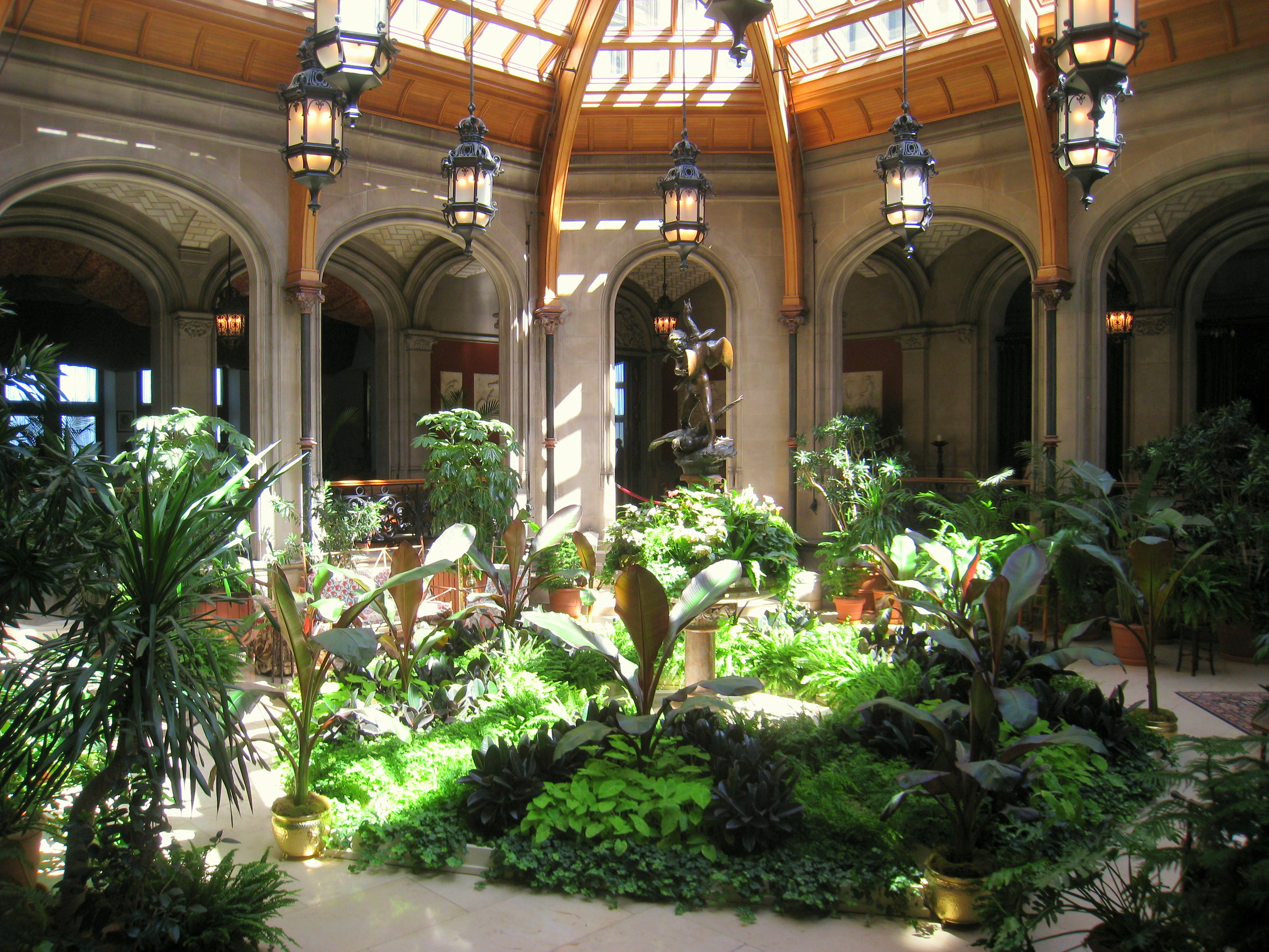 Interior garden at Biltmore Estate, Asheville, North Carolina, USA.